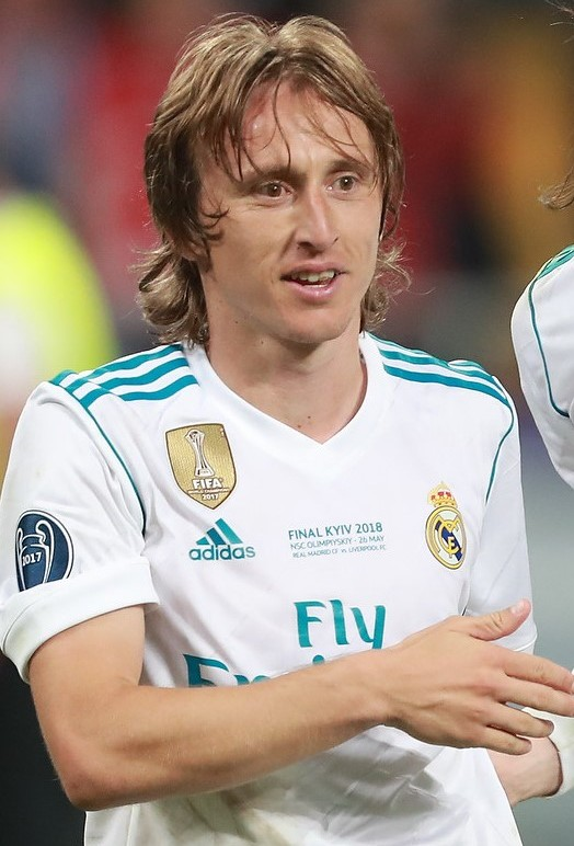 Luka Modrić, Gareth Bale